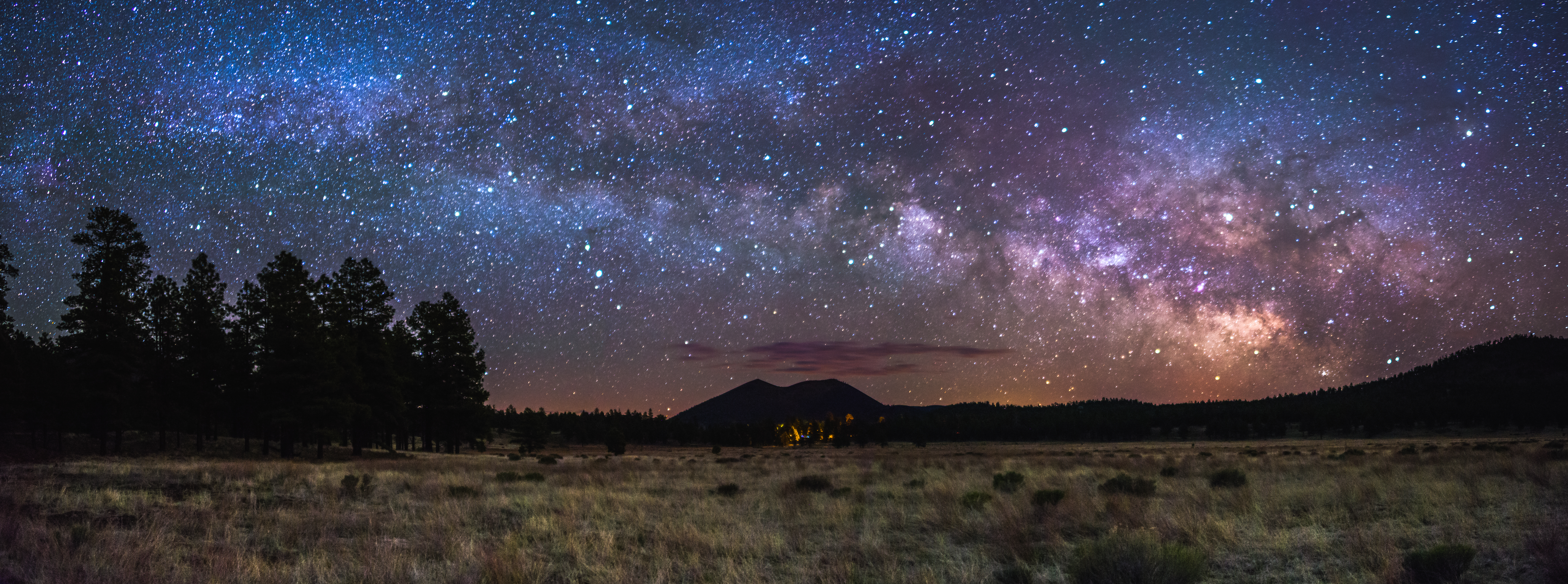 Bonito Park is a large, open meadow on the Coconino National Forest just west of Sunset Crater Volcano National Monument. A scenic pull-off along Forest Road 545 provides excellent views of Sunset Crater and the San Francisco Peaks. Sunset Crater Volcano National Monument is one of several Dark Sky Places neighboring the Coconino National Forest. Arizona is renowned for clear, sunny days and incredible star-filled nights. Flagstaff was the world's first International Dark Sky Place, leading the movement to reduce light pollution in 1958 by enacting lighting ordinances that help protect northern Arizona's dark skies for local observatories, astronomers, and star gazers. Sedona, Big Parks/Village of Oak Creek, and area National Monuments have joined the ranks of Dark Sky Places, making the night skies over Coconino National Forest a magnificent sight most nights. The Milky Way is visible with the naked eye throughout northern Arizona, aided by Dark Sky ordinances, low population density, and extensive public lands. Photo by Deborah Lee Soltesz, May 2017. Credit: Coconino National Forest, U.S. Forest Service. Learn more about the Volcanos and Ruins Loop Scenic Drive, the International Dark Sky Association, and the Coconino National Forest.